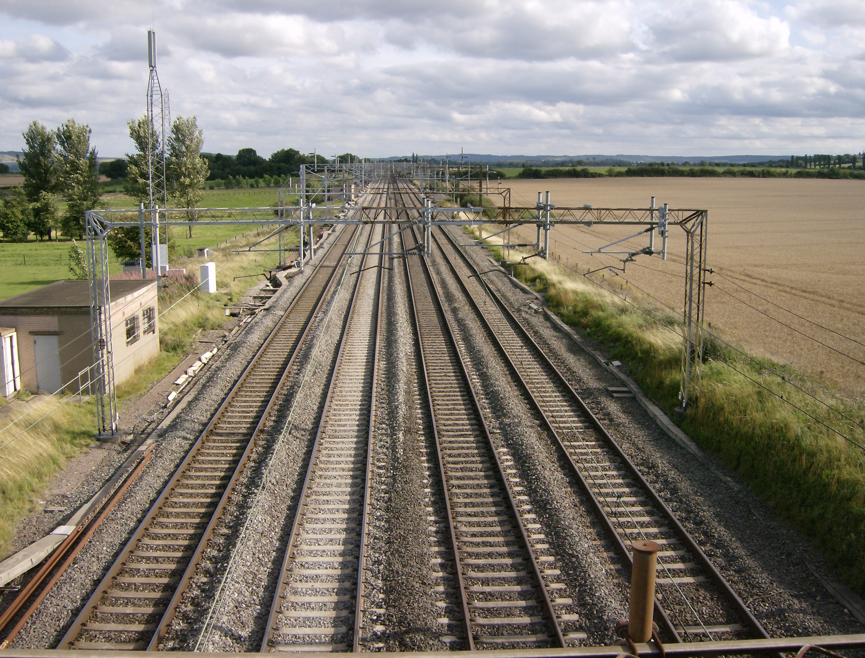 View from a footpath near Ledburn, Buckinghamshire over the West Coast Main Line, towards 'Sears Crossing' where robbers took control of a mail train during the Great Train Robbery of 8 August 1963.